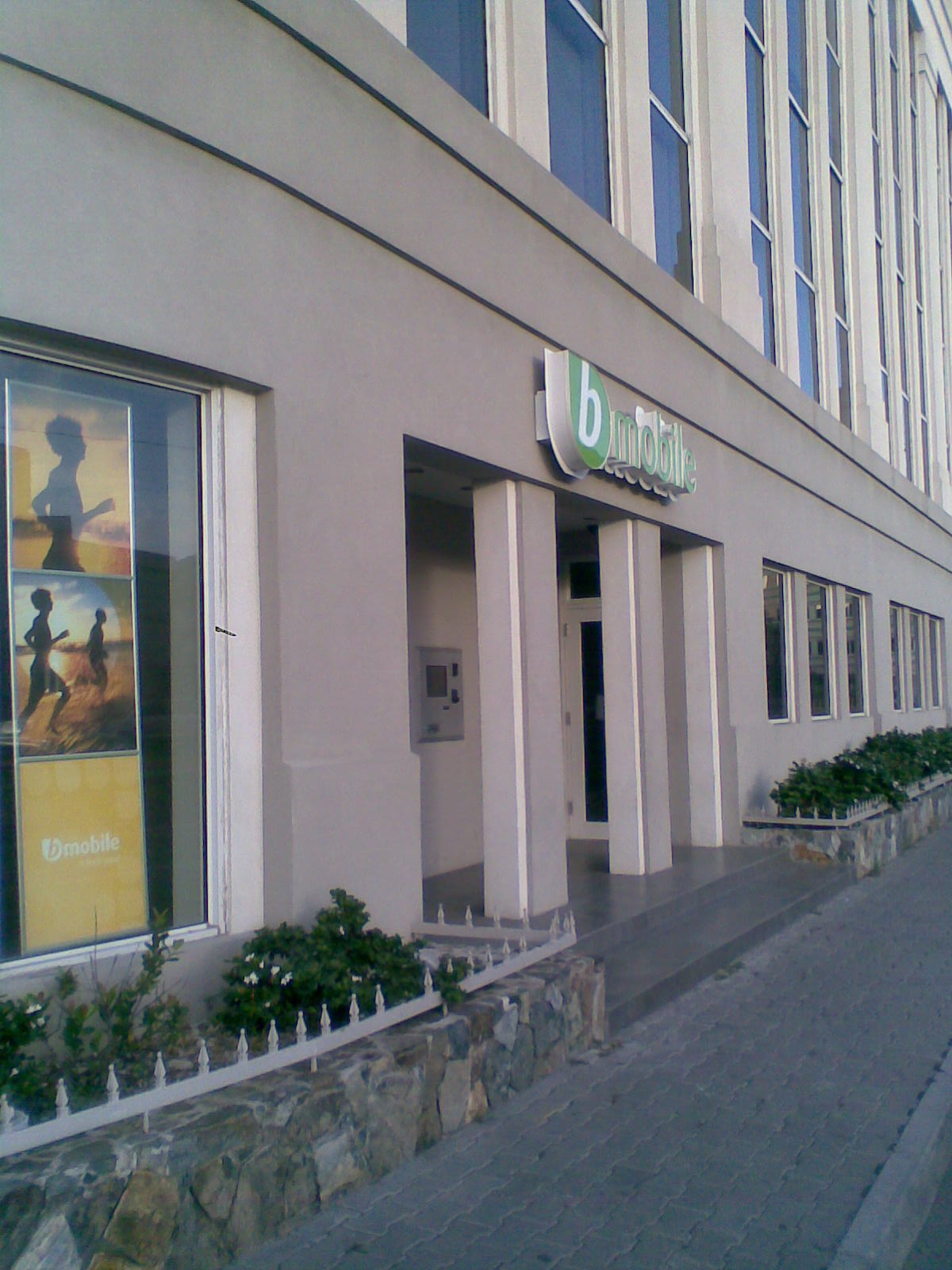 Photograph of the headquarters of bMobile in the British Virgin Islands (taken September 2007) by User:Legis